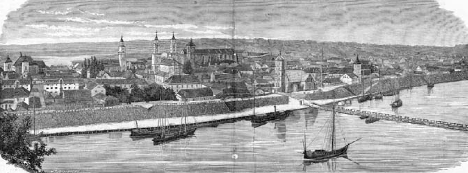 Kaunas (Lithuania) in 19th century.